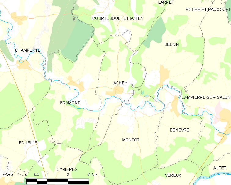 Map of French municipality